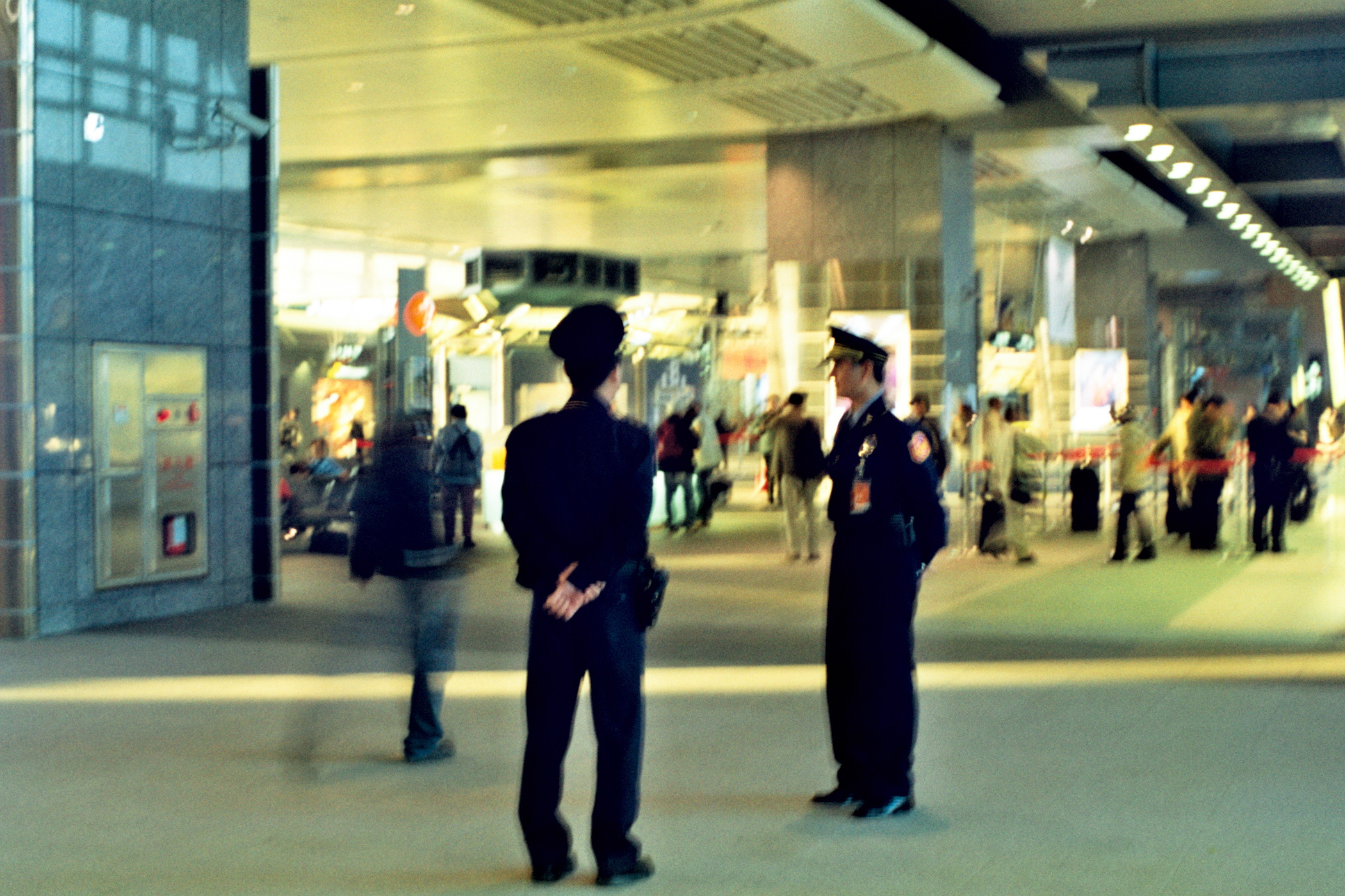 Police from Railway Police Bureau in THSR Taichung Station. This image (or all images in this category/page) is very small, unfixably too light/dark, or may not adequately illustrate the subject of the picture. If a higher-quality image is available please consider replacing this one; otherwise, a replacement under a free license should be found or provided. Please see Category:Image cleanup templates for templates used to mark images that only need a clean-up. For more help, see Commons:Media for cleanup#Low quality pictures.